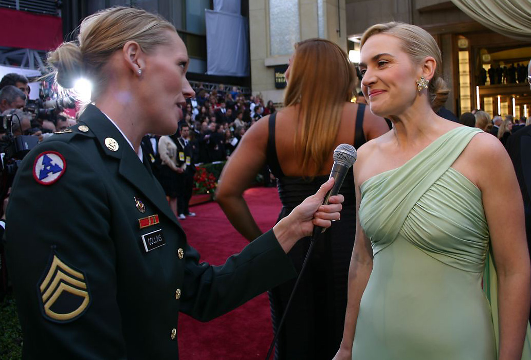 Army Staff Sgt. Addie Collins, 222nd Broadcast Operations Detachment, interviews Academy Award nominee Kate Winslet on the red carpet at the Kodak Theatre in Los Angeles, Feb. 25. U.S. Army photo